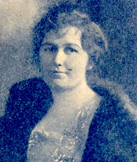 Irene Cozad Sherer, a white woman wearing a fur collar and a sparkly gown.